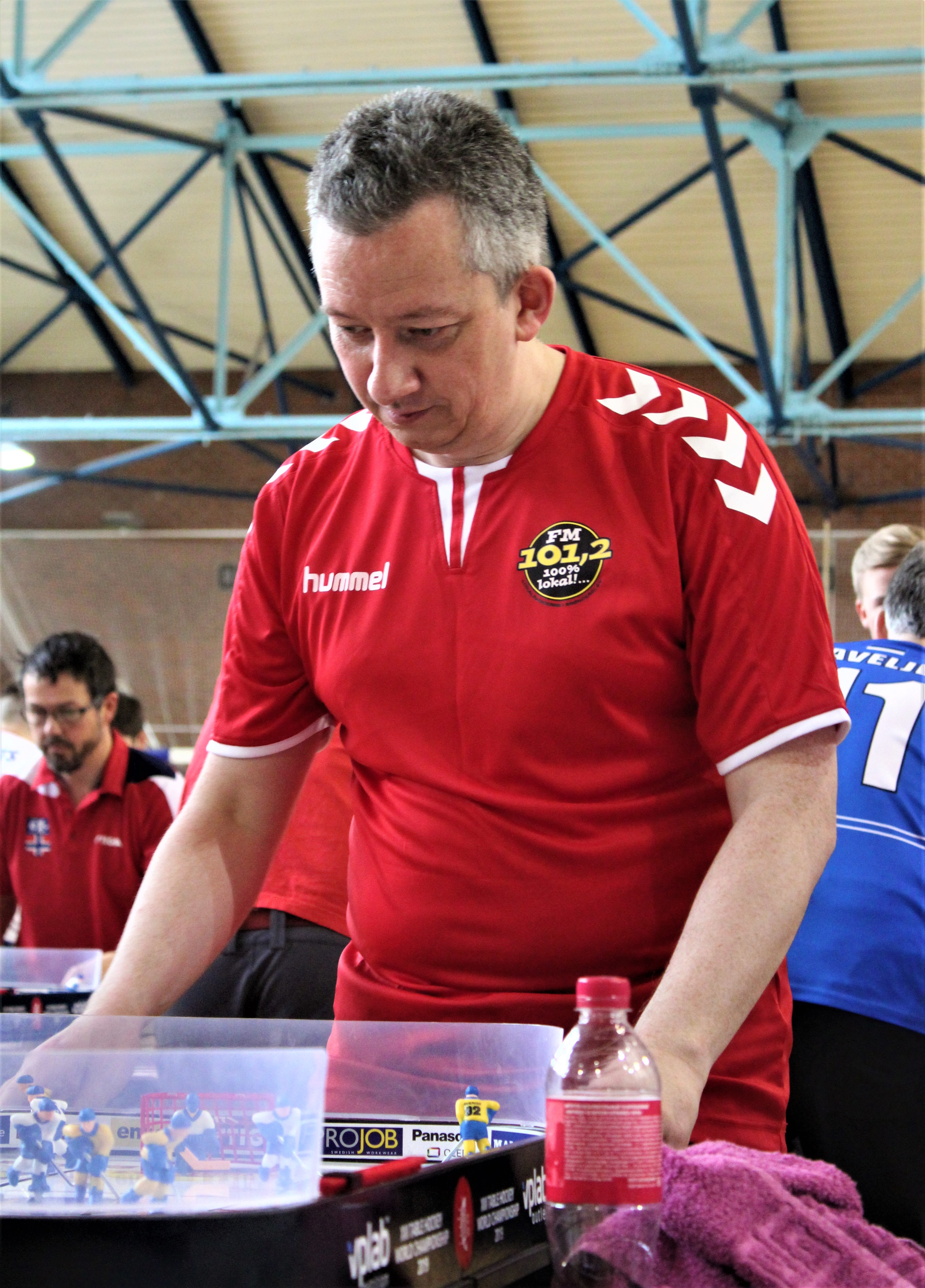 ITHF president Bjarne Axelsen (DNK) playing table hockey at World Championship in Raubichi (BLR), 2019